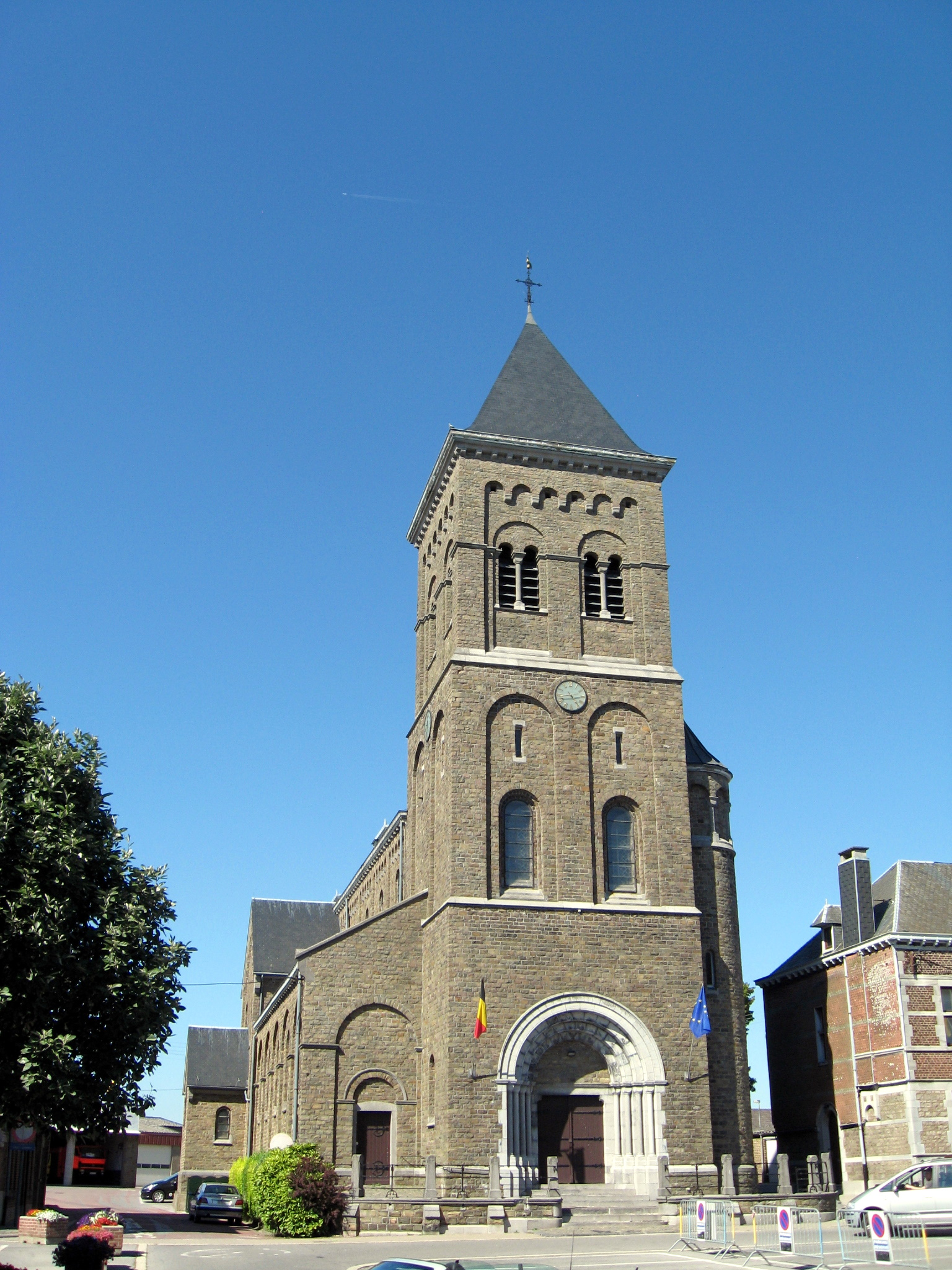 Church of Saint Vincent de Paul in Battice, Herve, Liège, Belgium